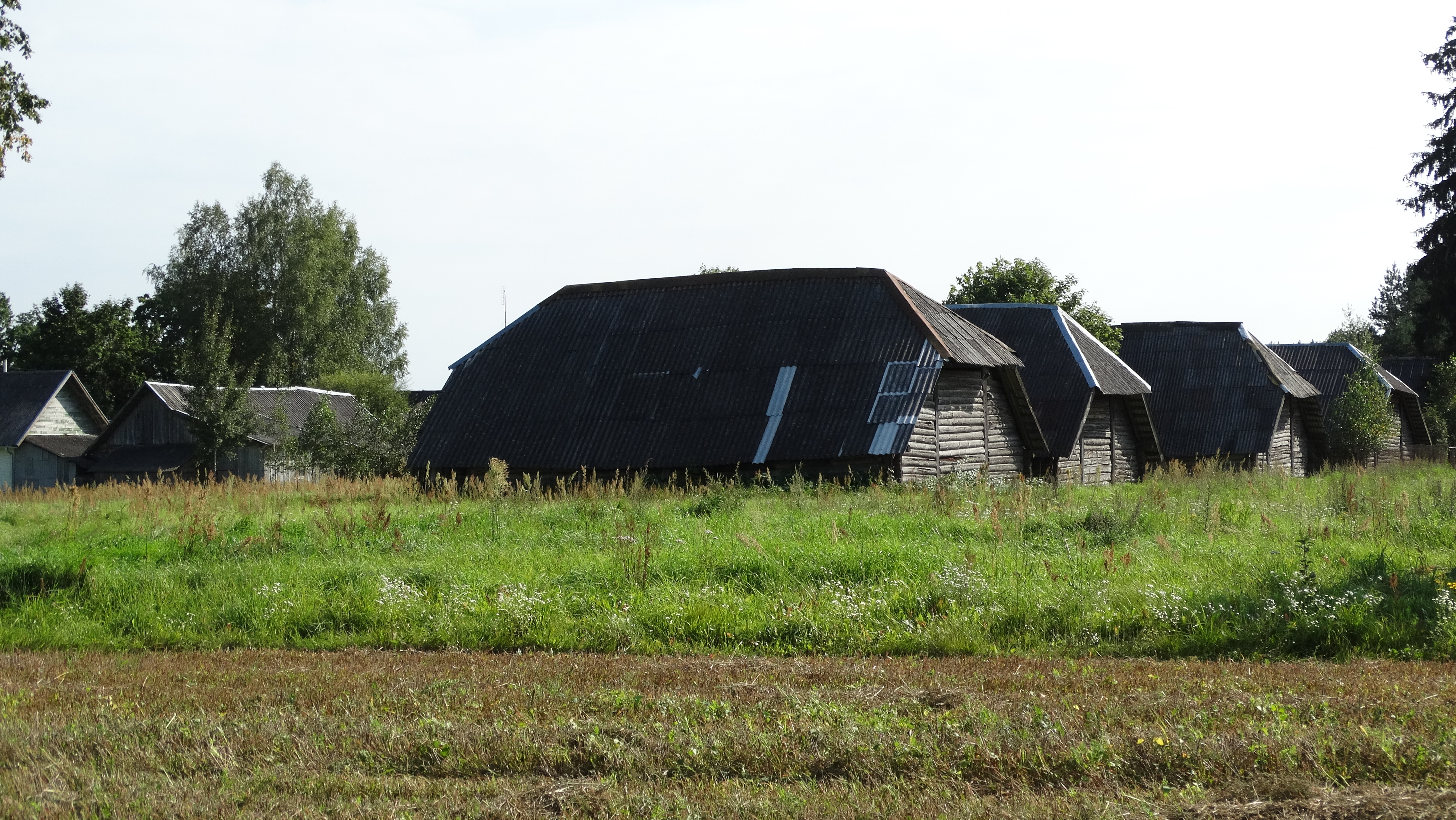 Kasčiukai, Švenčionys District, Lithuania